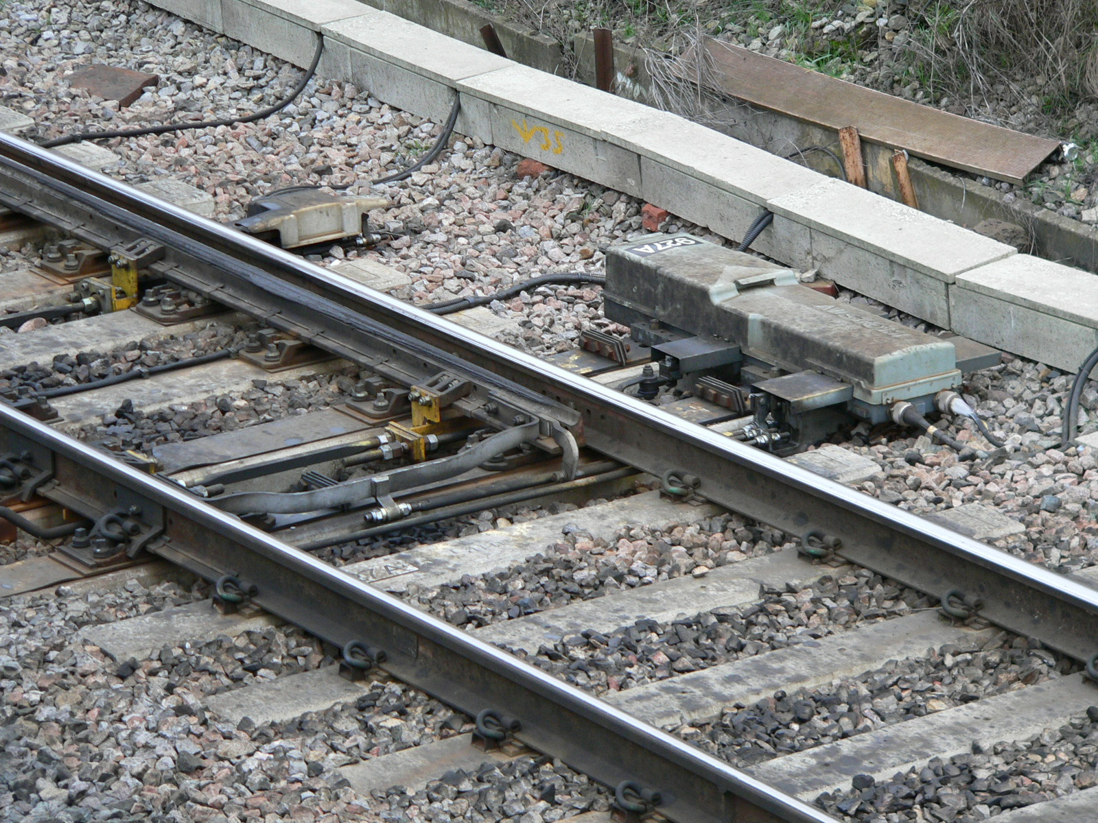 A closeup of the converging points immediately north of Filton Abbey Wood railway station. In this configuration the track is set for trains from Bristol Parkway. The machine itself is a HW type, fitted to the rails with relatively modern adjustable stretcher bars and supplementary detection.